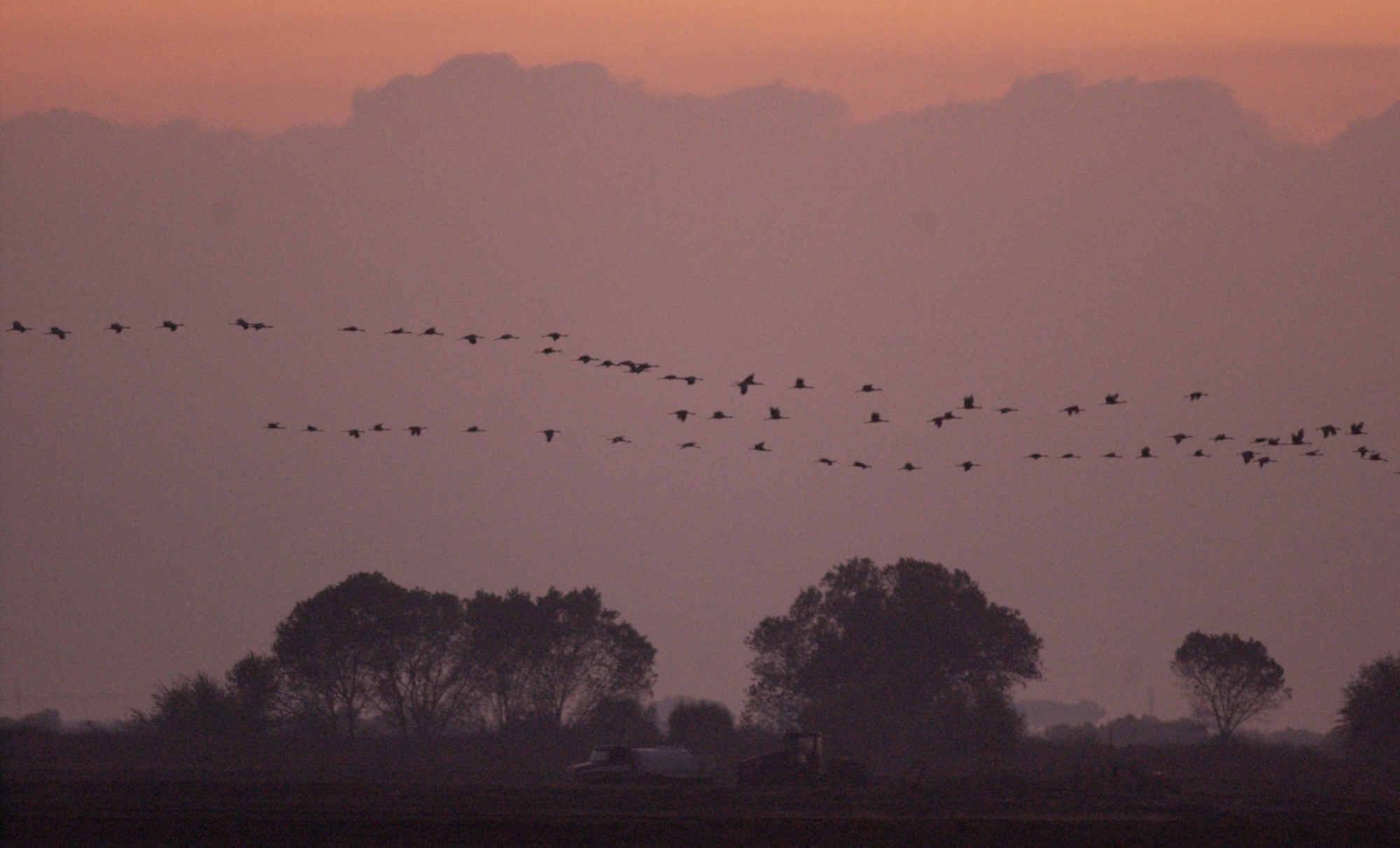 Pixley National Wildlife Refuge, CA Welcome Back The Cranes Nov. 12, 2011 Photo: Juan Villa, copyright Visalia (CA) Times-Delta, used by permission